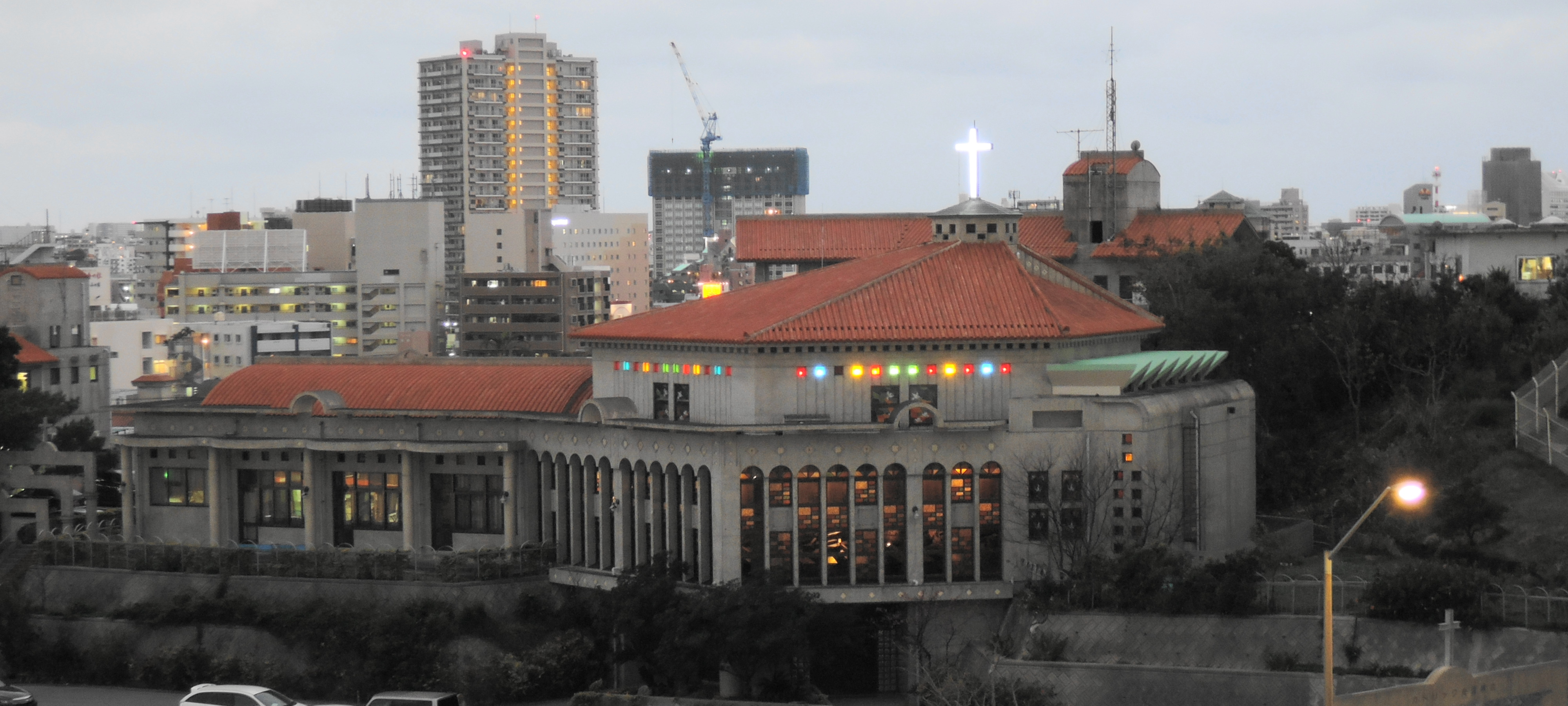 Roman Catholic Diocese of Naha,Okinawa prefecture,Japan